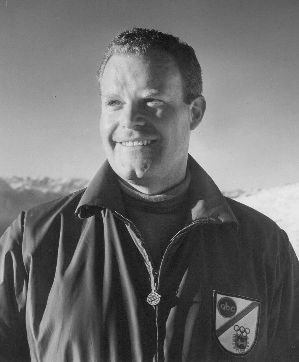 1968 Press Photo Roone Arledge President ABC Sports News 7x9